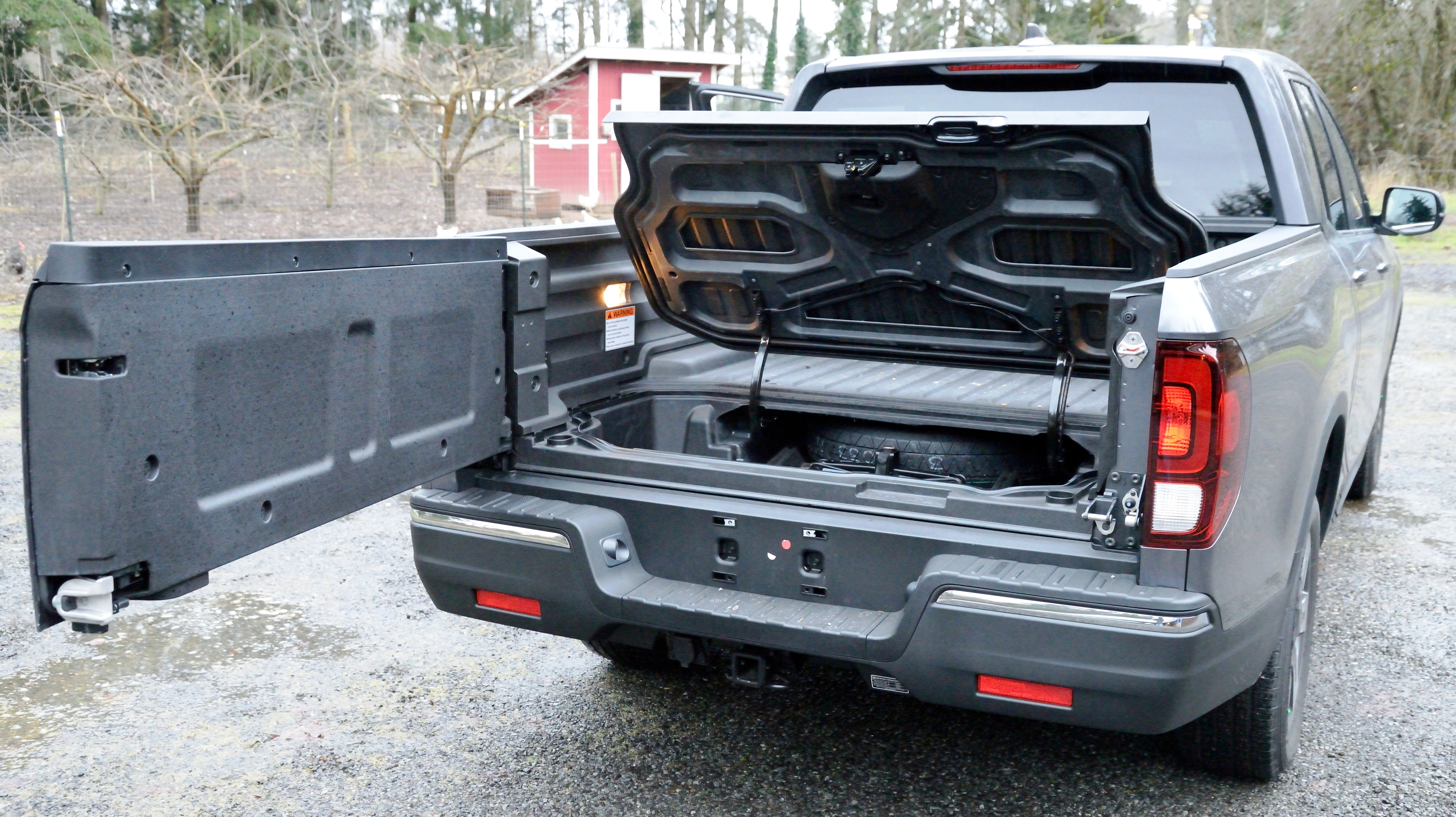 The 2017 Honda Ridgeline RTL dual-action tailgate and in-bed trunk